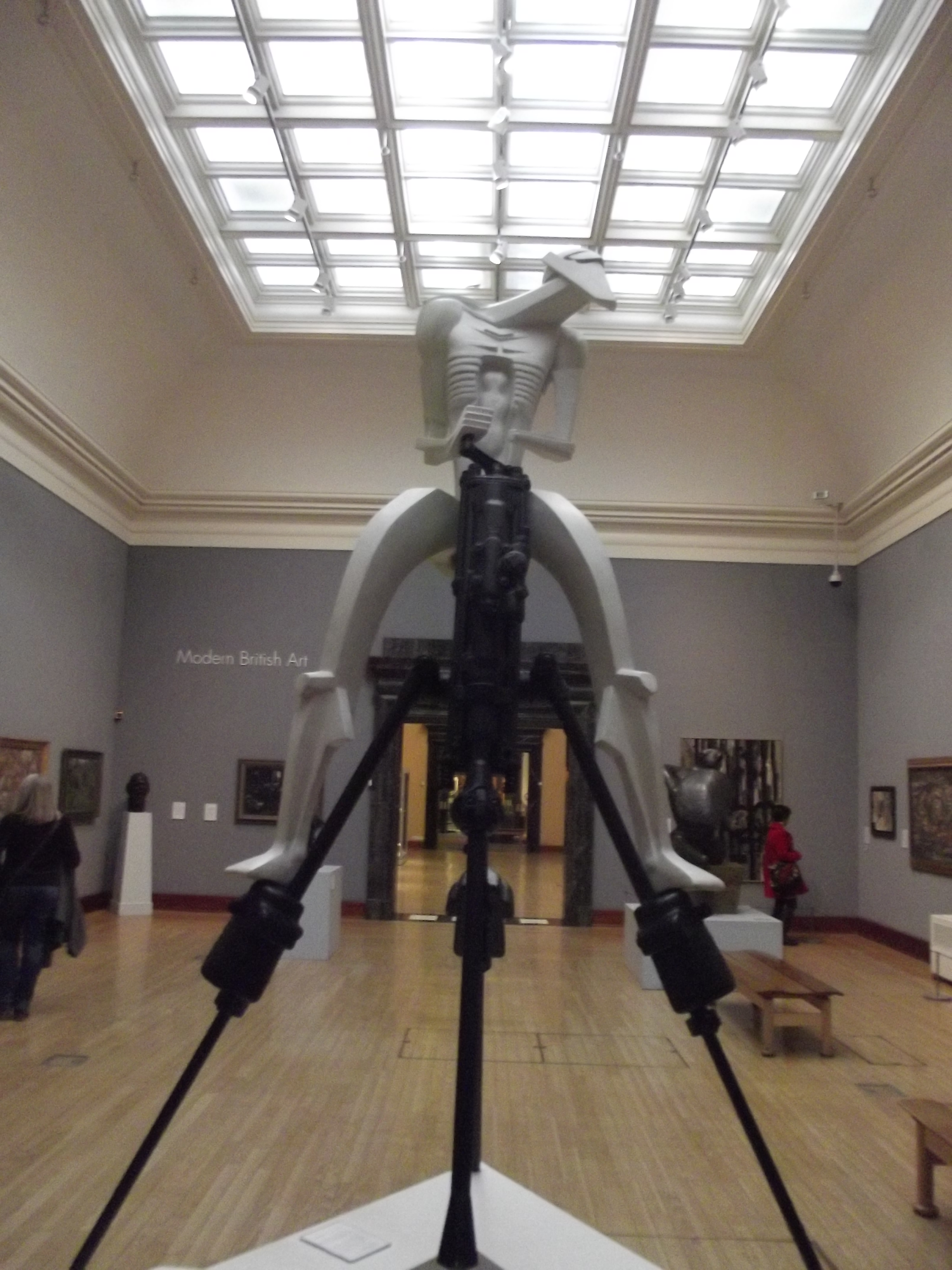 1974 reconstruction of Jacob Epstein's Rock Drill), based on the original of 1913-15. Made of Polyester resin, metals and wood. Epstein created his original in 1913. It was a life-size plaster figure of a visored robotic man seated upon an actual rock drill. It was shown briefly in 1915 before being dismantled. This is a reconstruction made in 1974 from Epstein's studio photographs. It was presented to the museum in 1982. From the front.